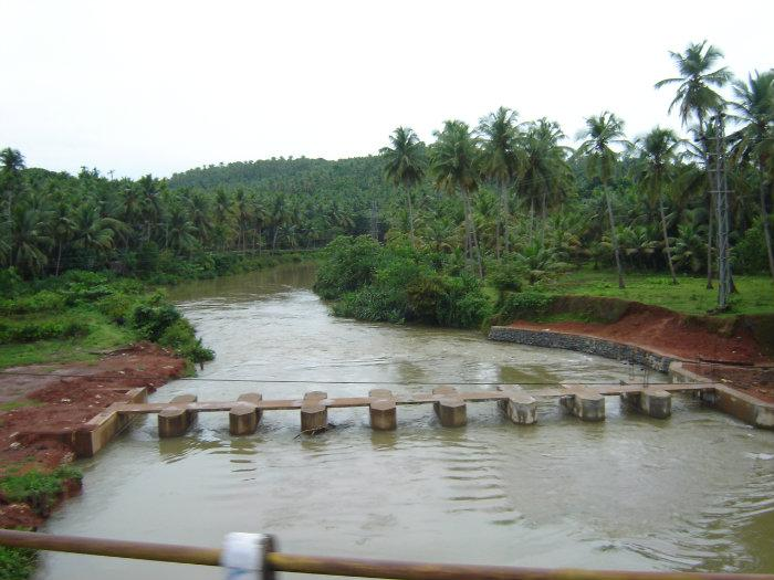 Perambra , a village in Kozhikode district.